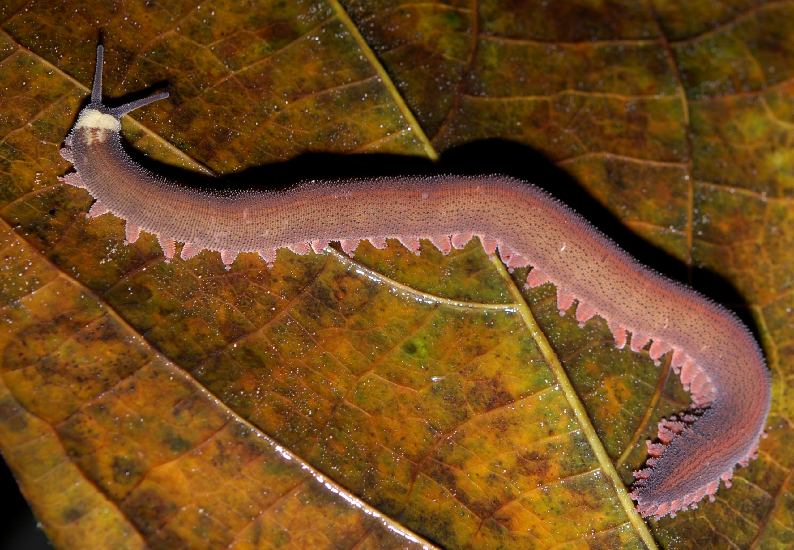 An Oroperipatus species found in Yasuni National Park, Ecuador